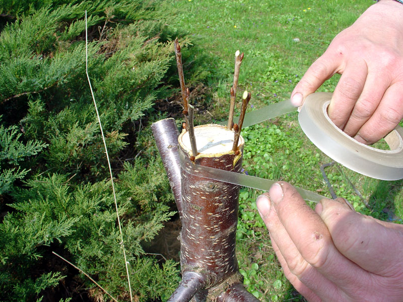 Rindgraft of cherry tree (roubování třešně) Photo in Czech republic April 2006